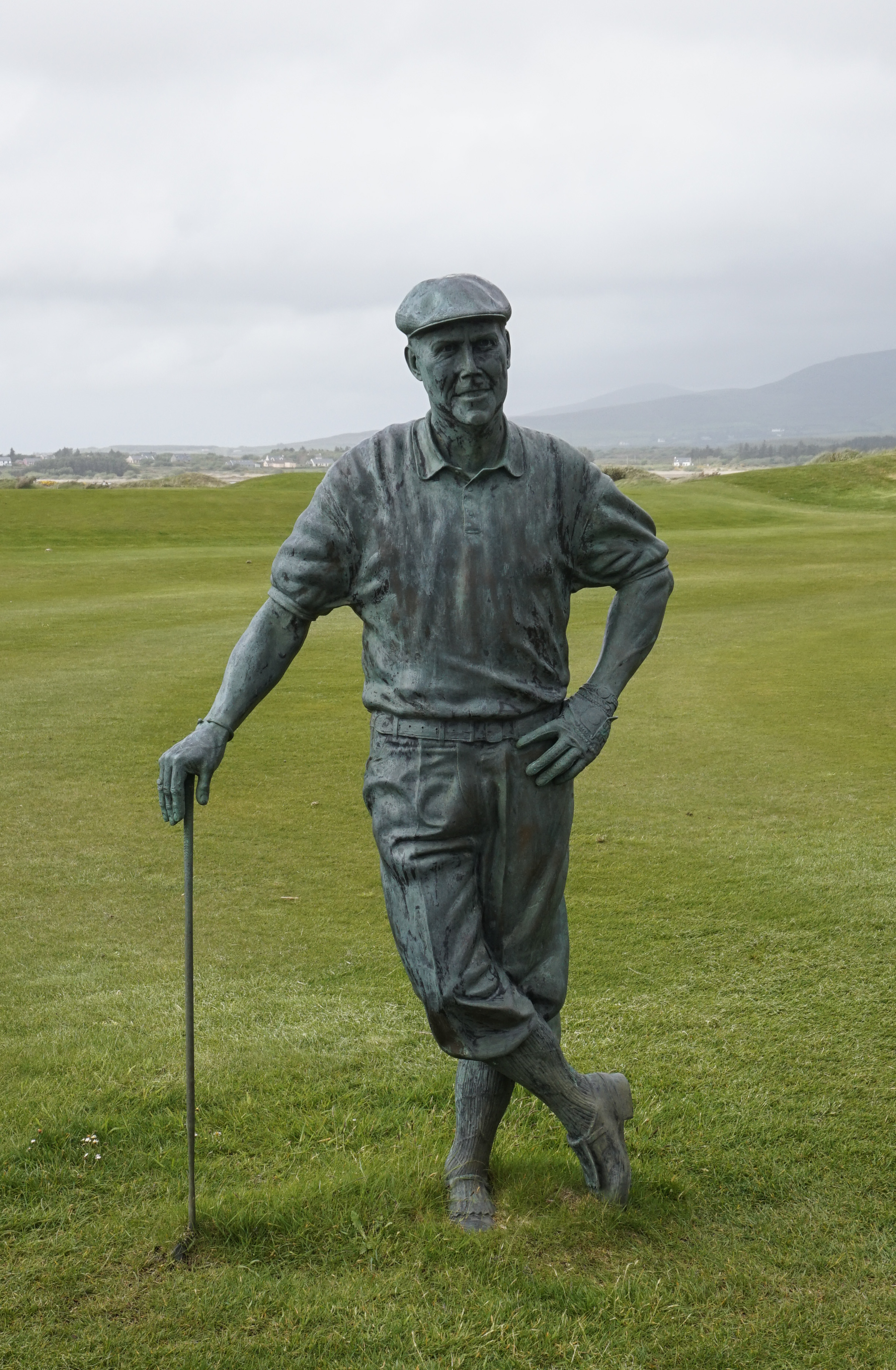 Statue of Payne Stewart at Waterville Golf Links, County Kerry, Ireland